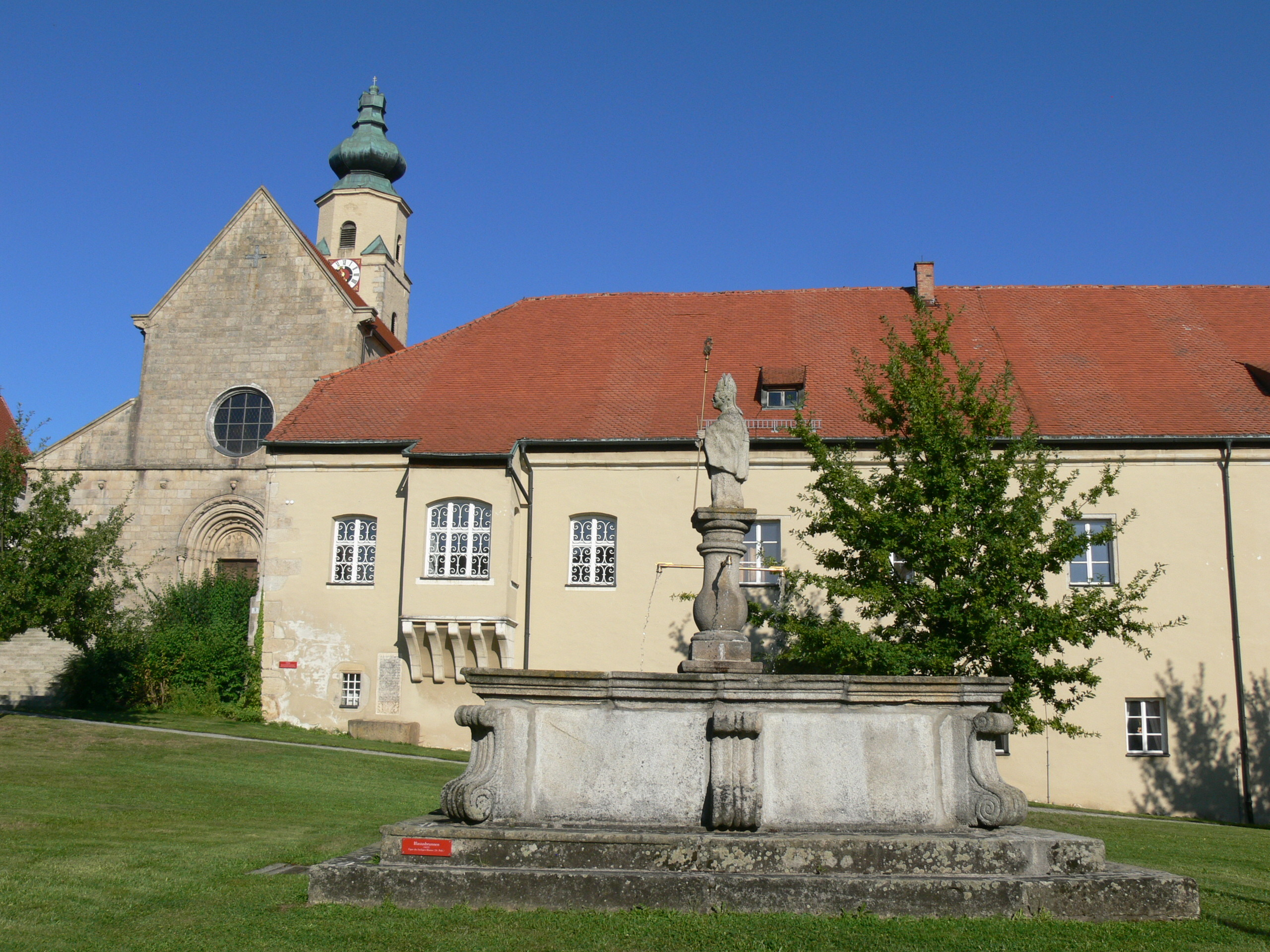 Windberg monastery ( Lower Bavaria ). Saint Blaise-fountain ( 1633 ) in front of church and monastery building.